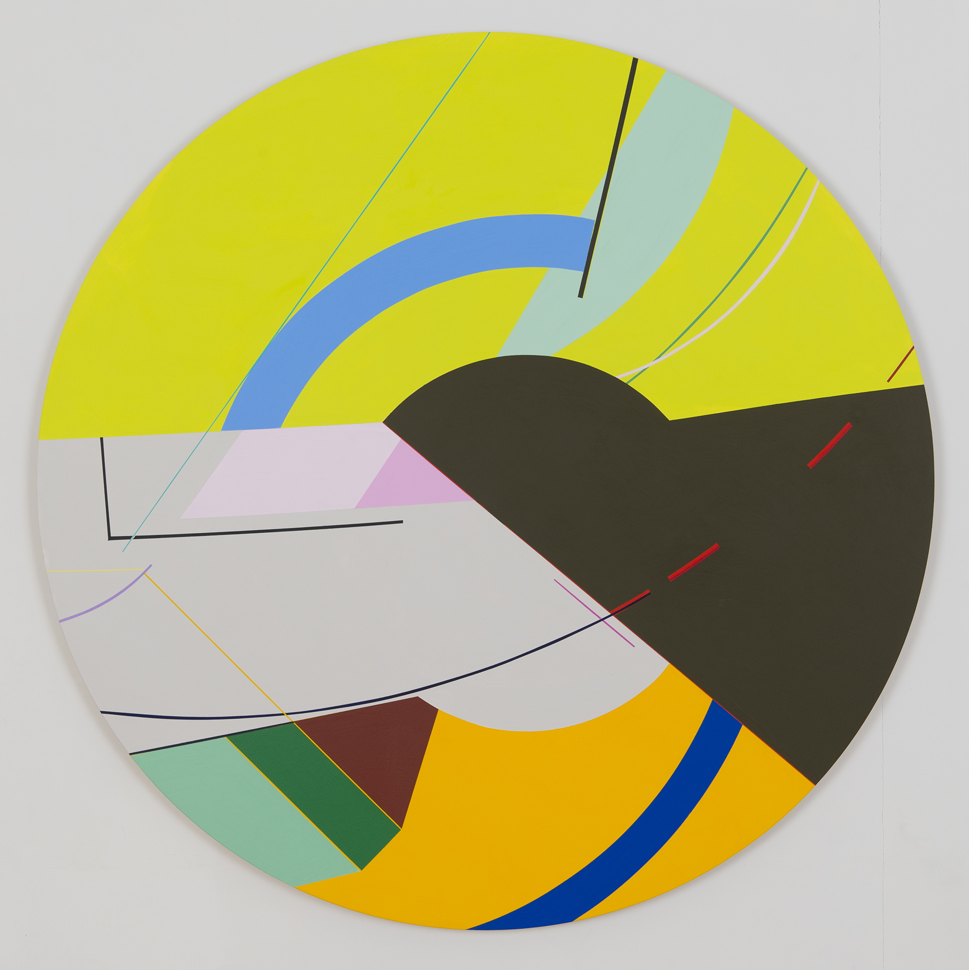 Susanne Kathlen Mader, La Serrure, acrylic on plywood, 2013.